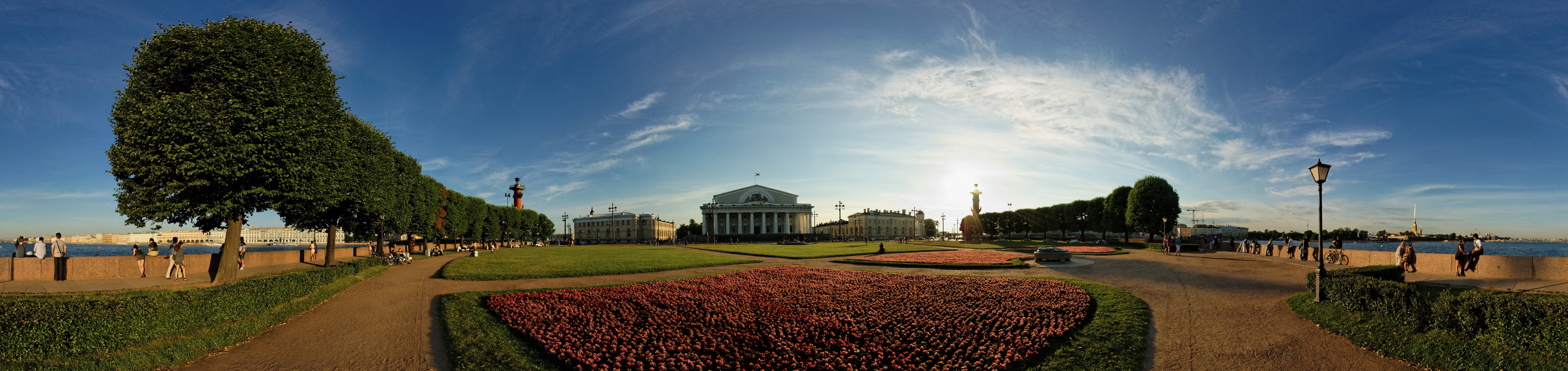 Birzhevaya Square, Spit of the Vasilievsky Island.